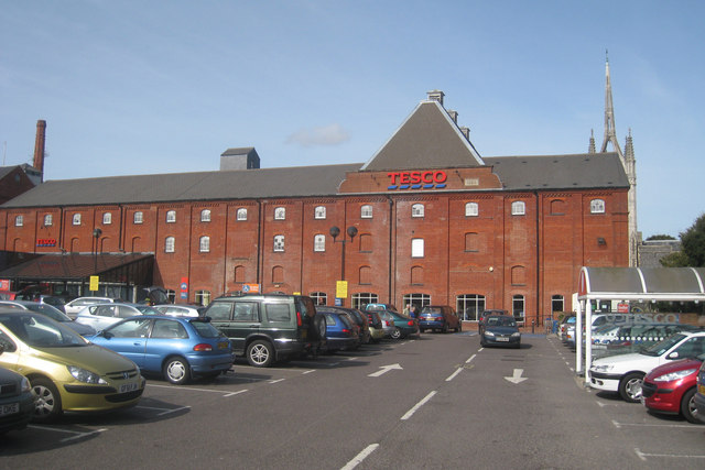 Former Brewery at Faversham Former Fremlin's Brewery, now a Tesco supermarket at ground floor.